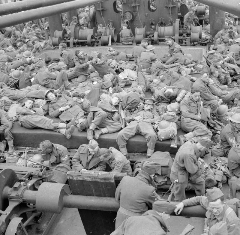 The British Army in France 1940 Exhausted troops rest aboard the troopship 'Guinean' at Brest during the evacuation of British forces from France, June 1940.